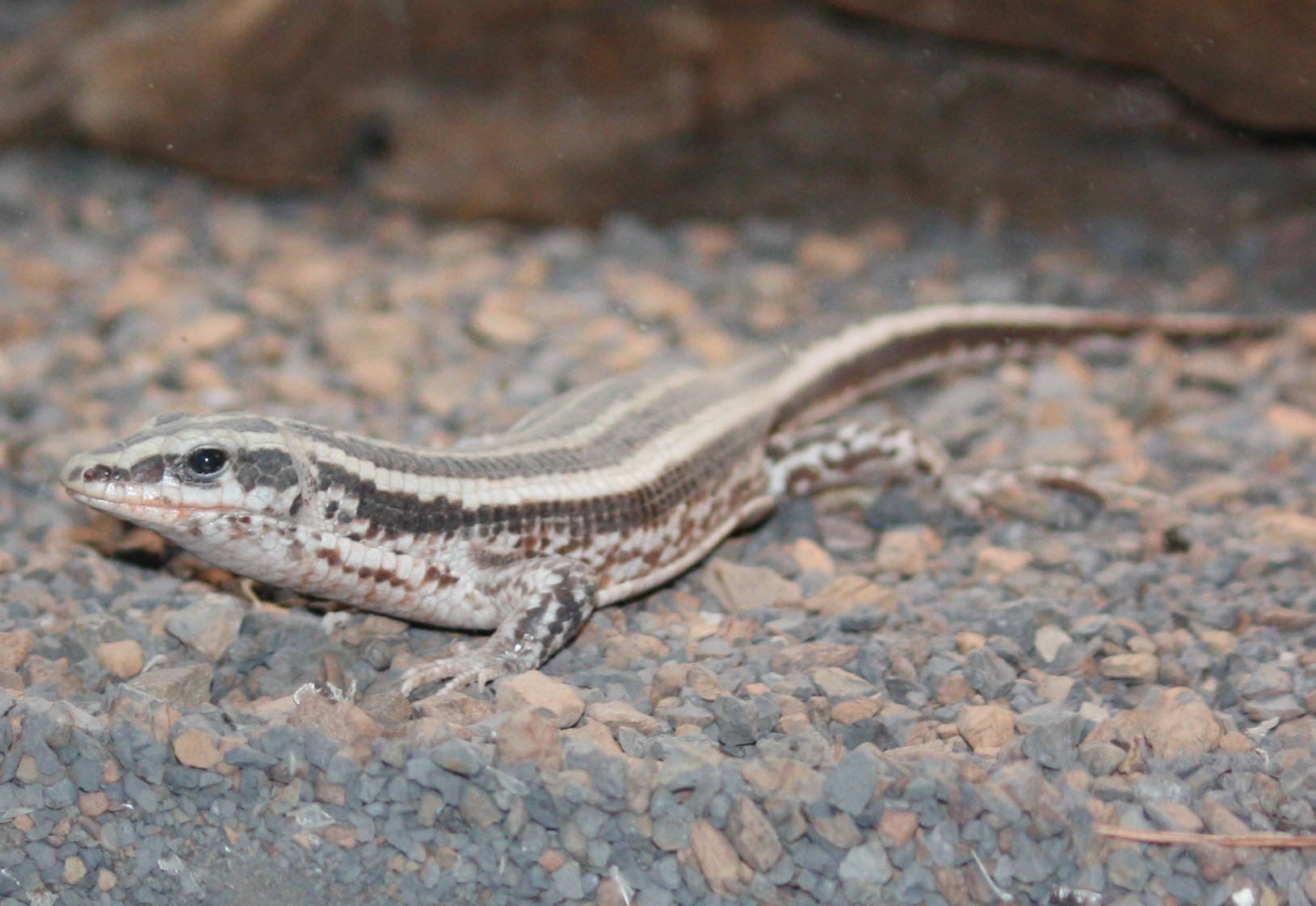 Four-lined Plated Lizard (Zonosaurus quadrilineatus) at the Louisville Zoo